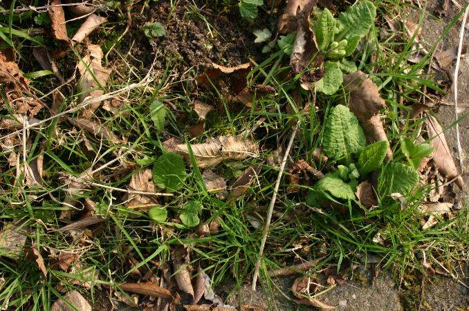 Weeding. This picture must be seen in connection with Image:Lugning2.JPG